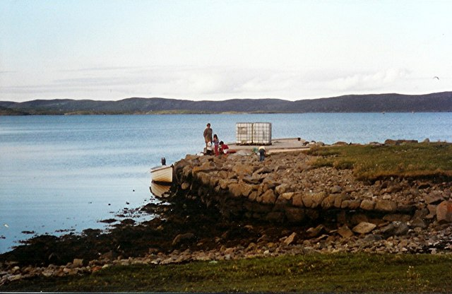 The small pier on the island of Hildasay, west of Scalloway, Shetland Islands